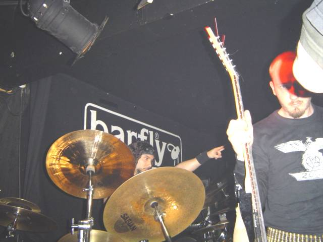 Hellhammer and Sanrabb (Mayhem)